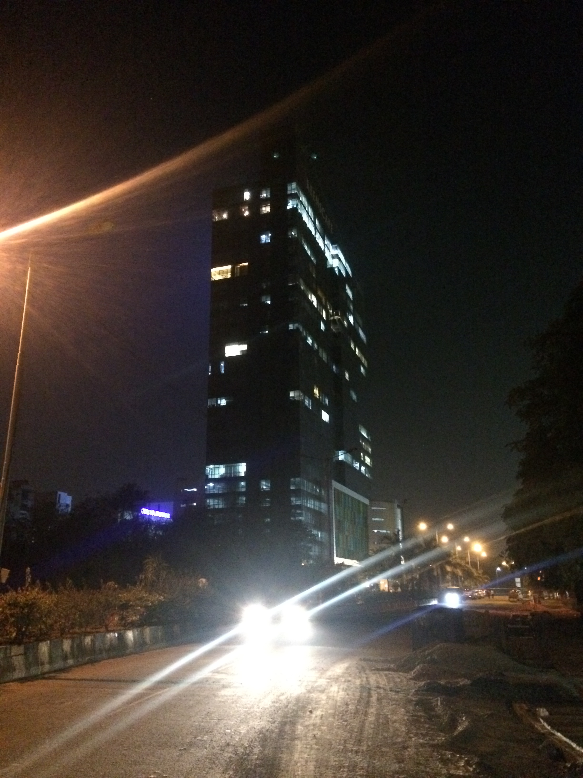 Vashi, Navi Mumbai skyline